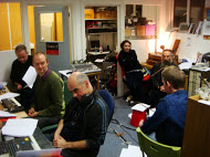 resonance radio orchestra in studio performance